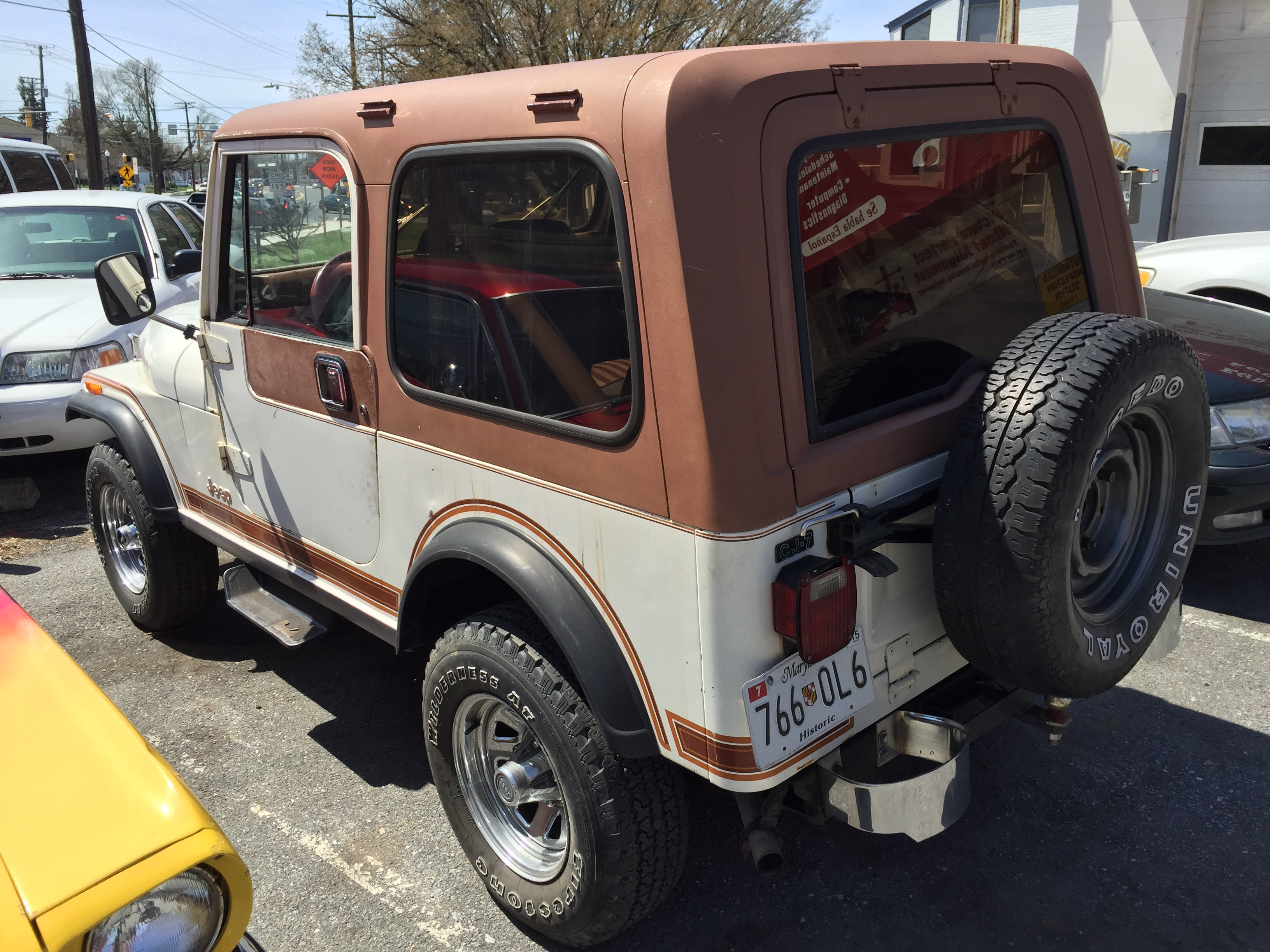 Jeep CJ-7 Laredo hardtop made by American Motors Corporation (AMC). In original condition, finished in white with tan trim and roof. Note: aftermarket auxiliary lights and brackets on roof. Photographed in Maryland.